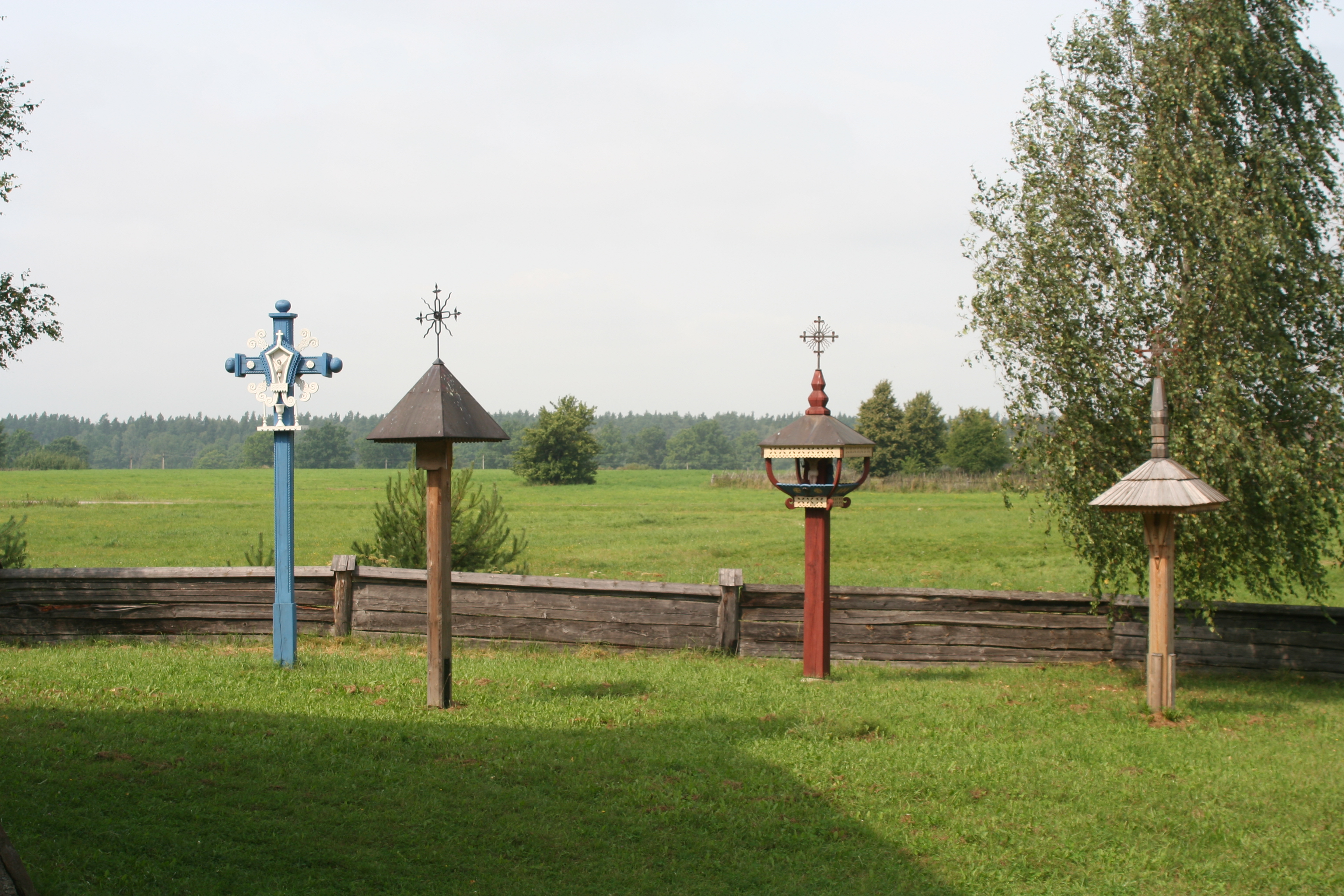 Rumšiškės, Lithuania. Ethnographic open air museum.